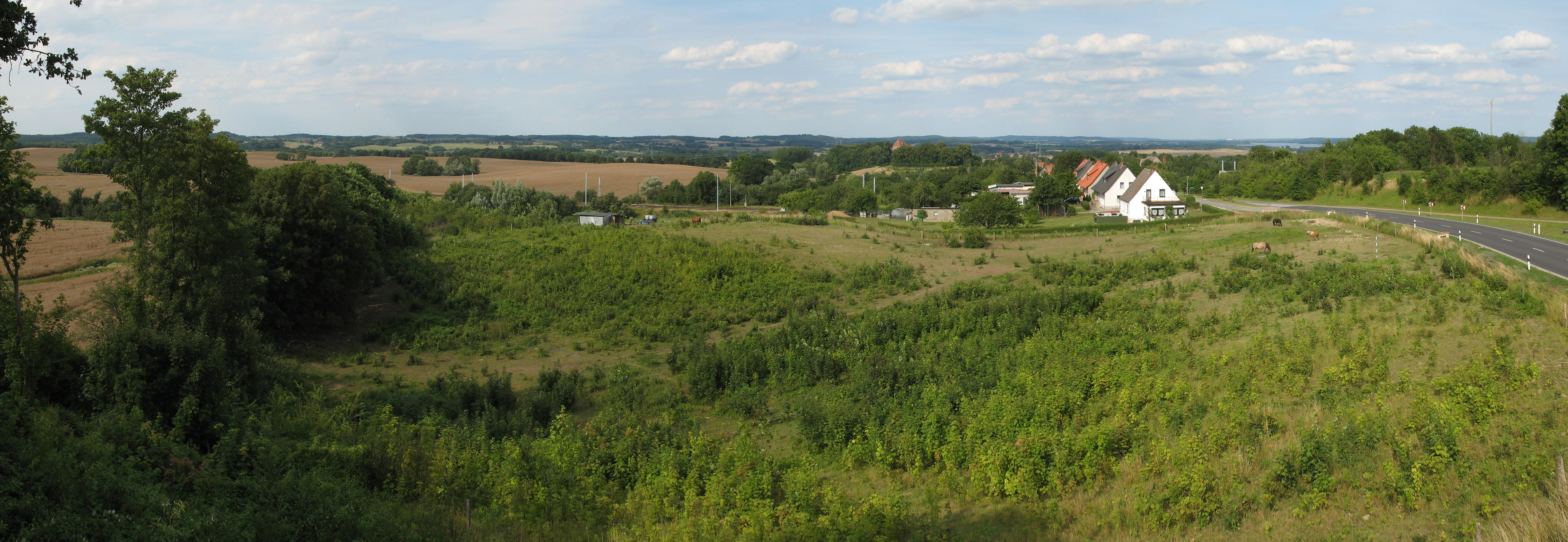 Panoramic view in Vollrathsruhe in Mecklenburg-Western Pomerania, Germany